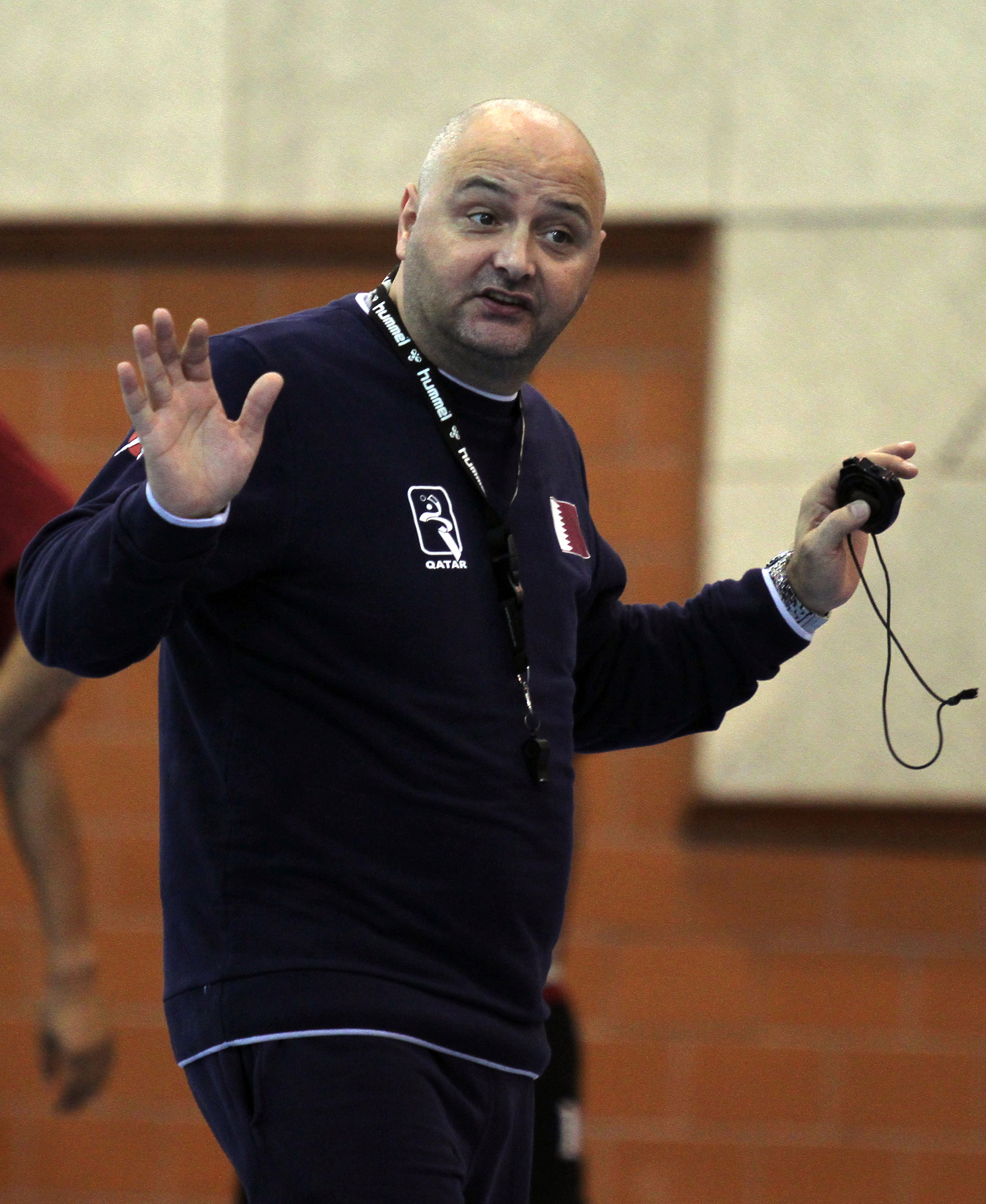 Qatar national handball team's Slovenian coach Borut Macek attends his team's training session.